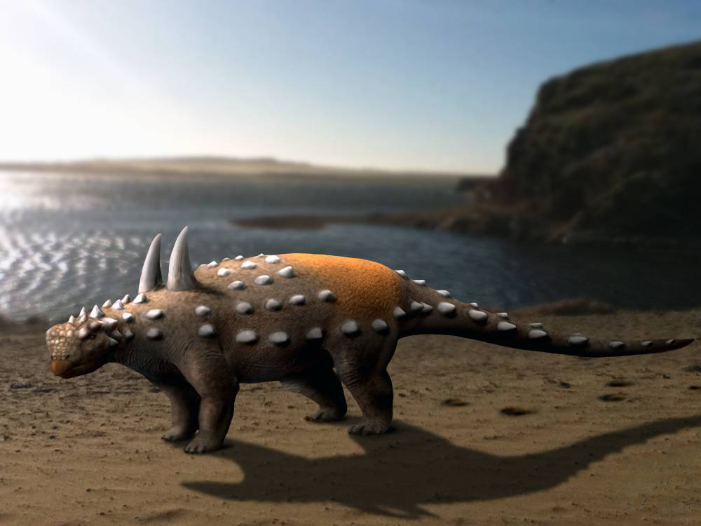 Life restoration of Aletopelta coombsi (Ford & Kirkland, 2001)